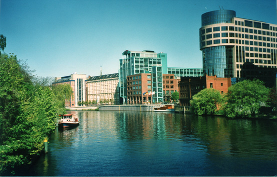 The Spreebogen in Berlin-Moabit (part of Berlin-Mitte)